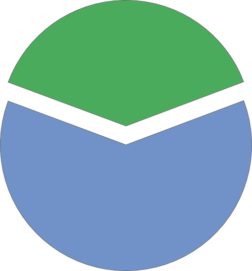 Two sectors of a circle.